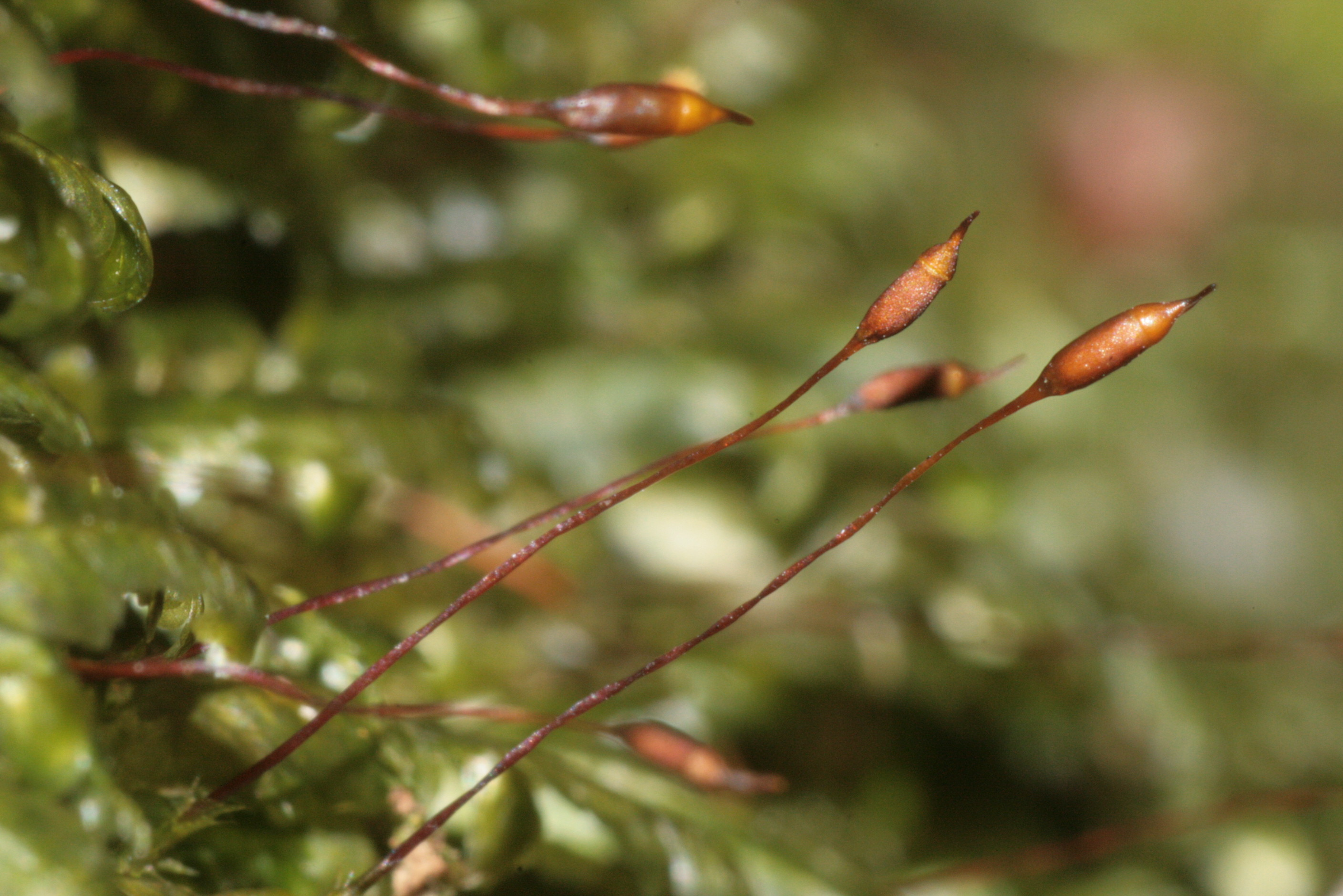 Homalia trichomanoides